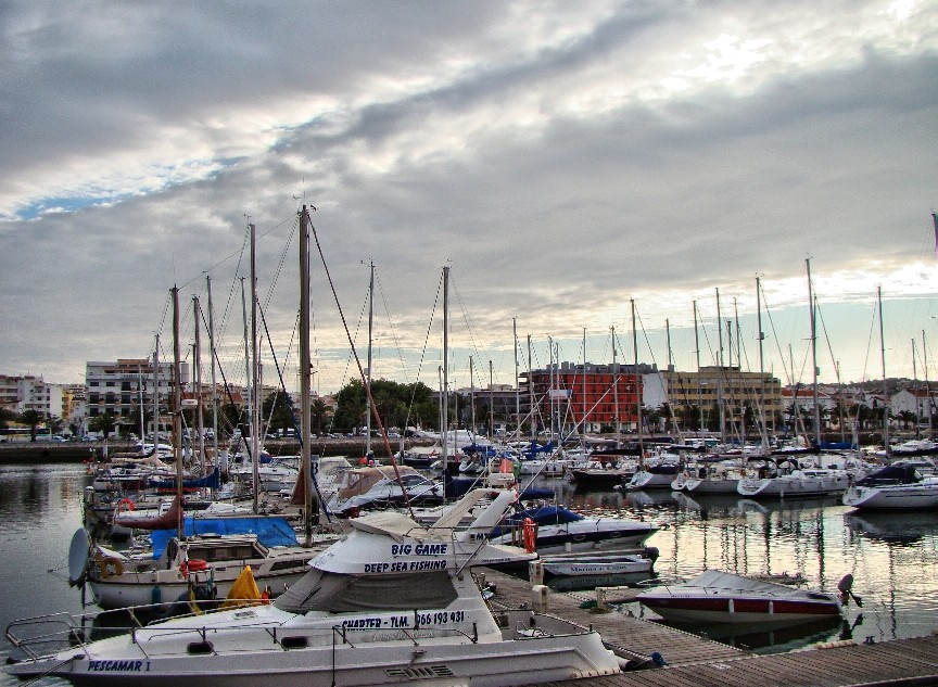 Lagos's marina